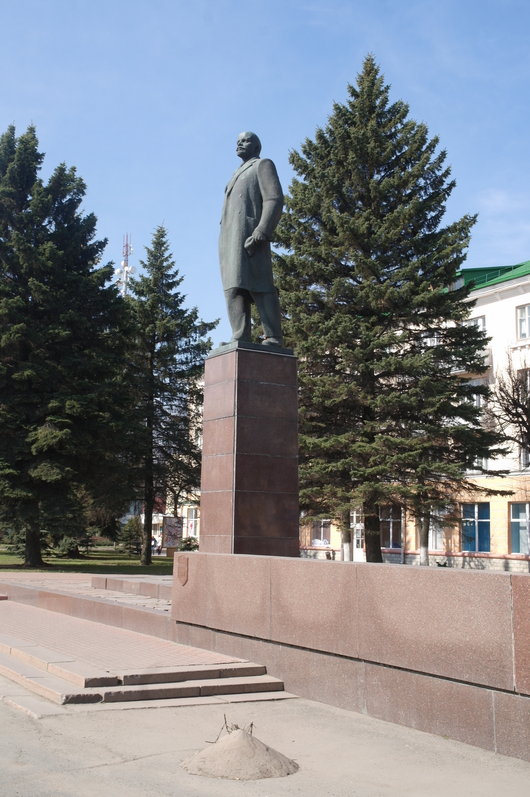 Monument to V. І. Lenin, erected in 1960 on Lenin square, Baranovichi city_113Ж000043.